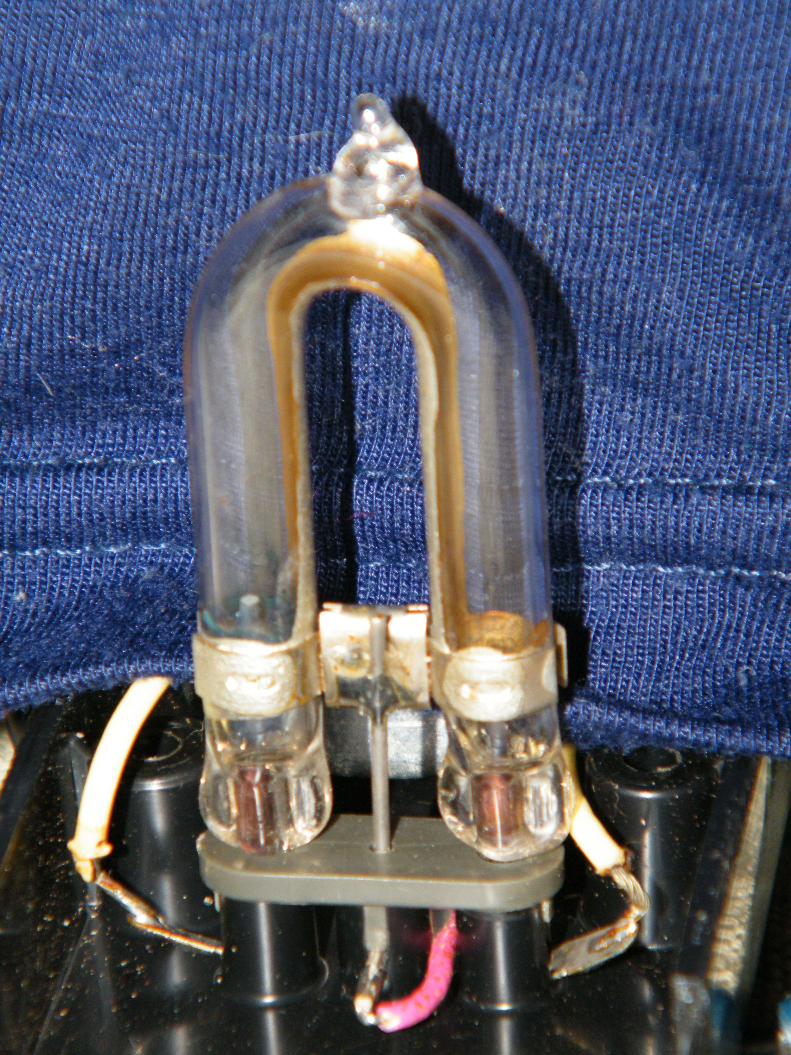 Лампа ИФК-120